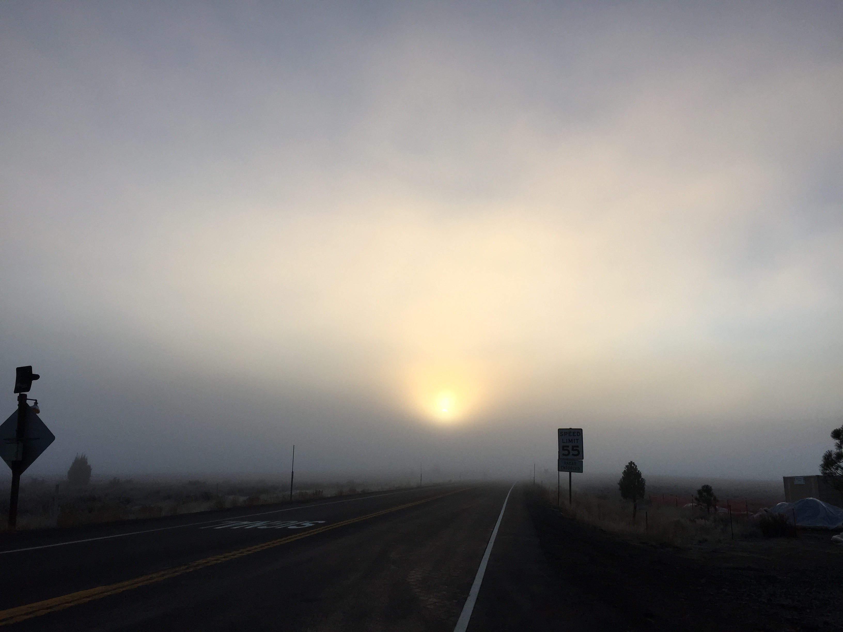 Fog just after sunrise along eastbound California State Route 267 (North Shore Boulevard) near Truckee Tahoe Airport near Truckee, California.